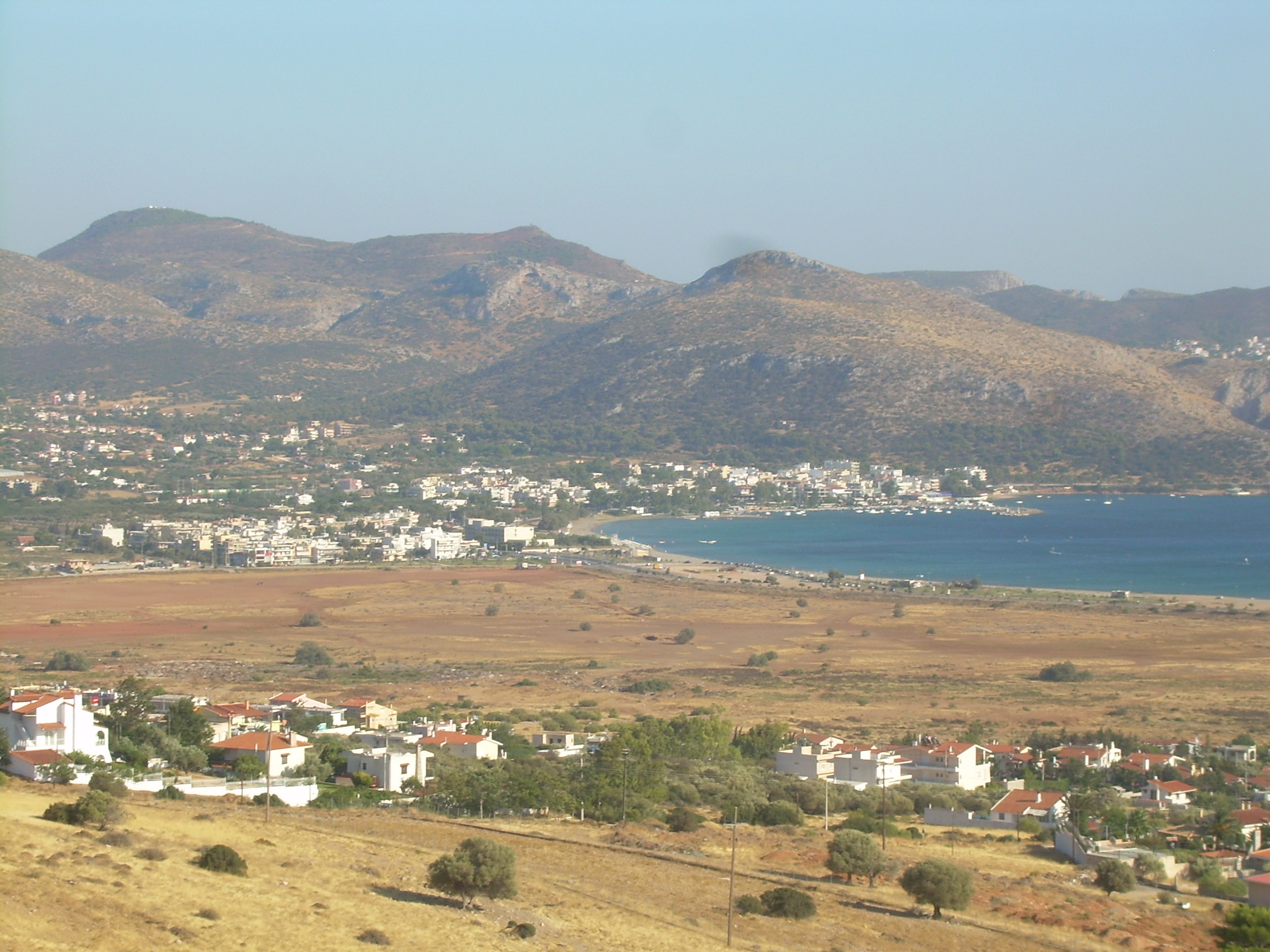 Palaia Fokaia, Attiki